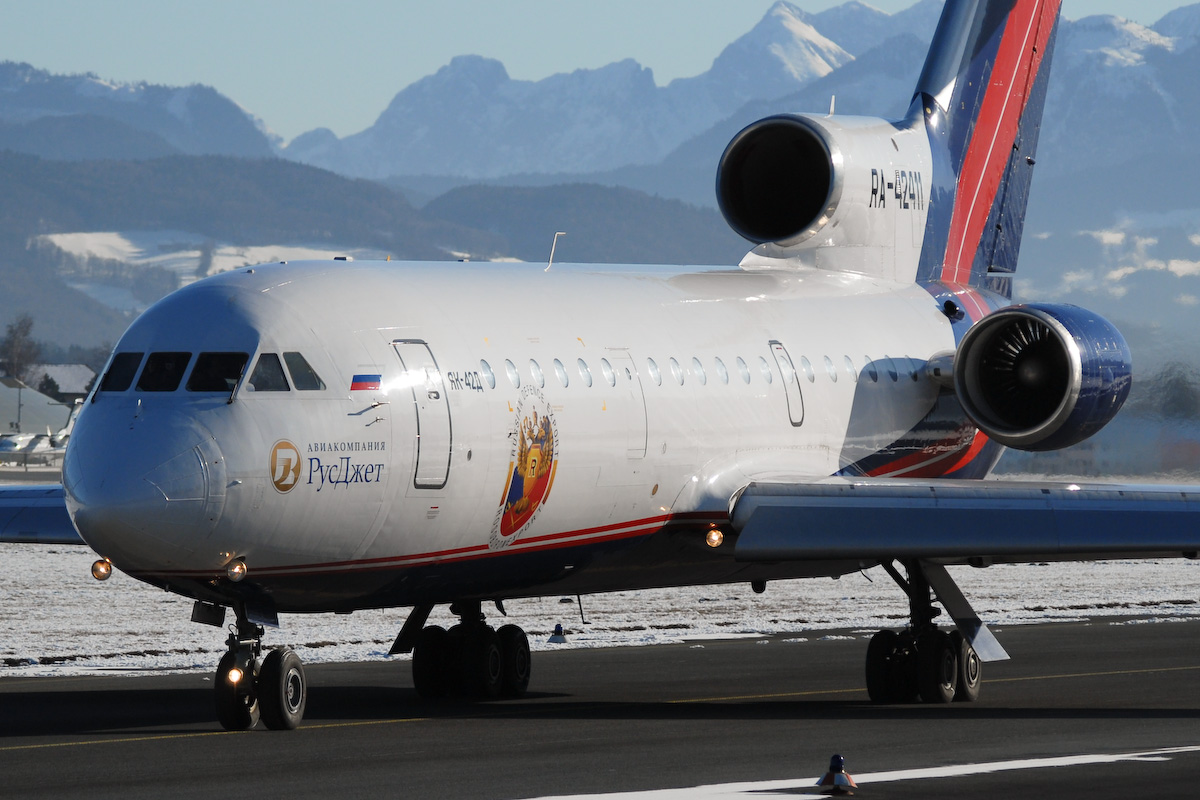 Jak42D